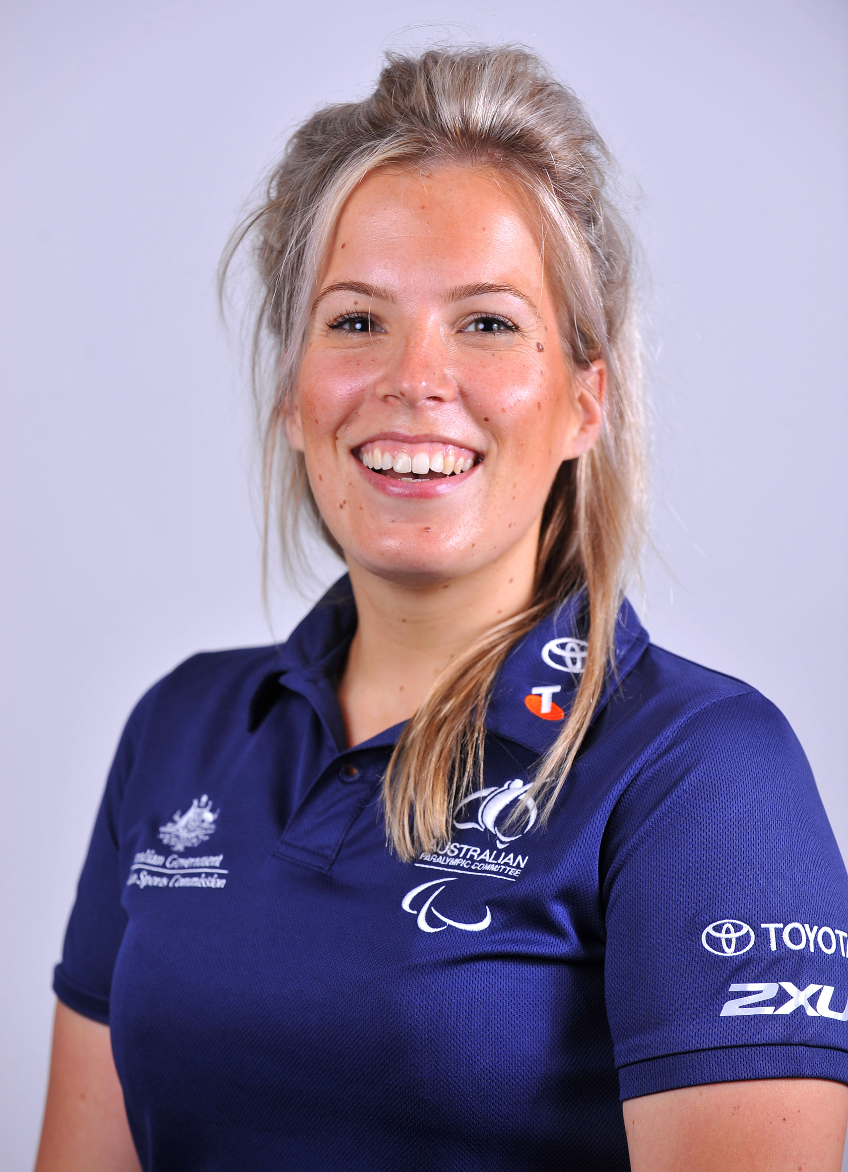 Portrait of Australian goalball coach Georgina Kenaghan, 2012 Australian Paralympic (shadow) Team